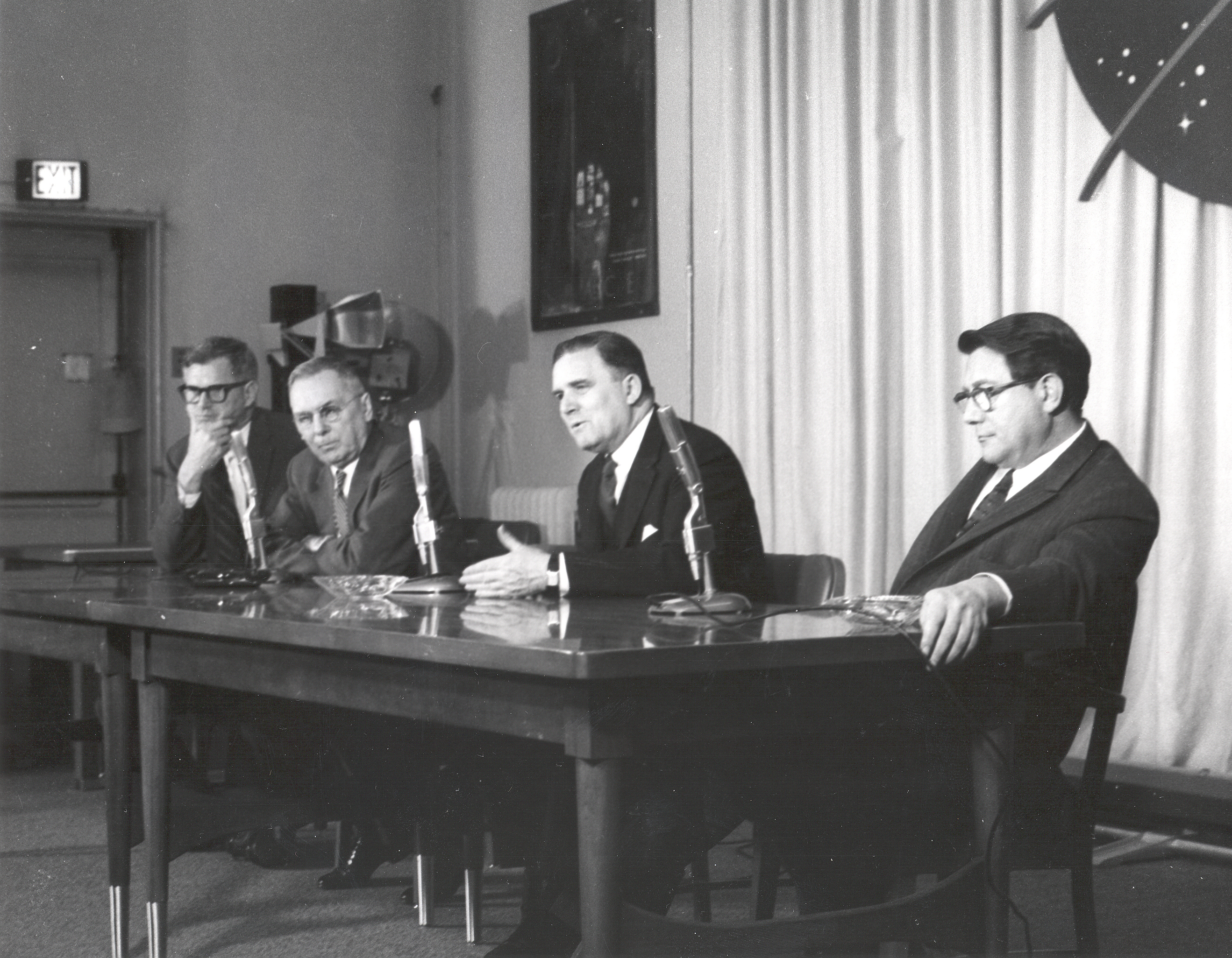 After the successful spaceflight of Yuri Gagarin, the first person to fly in space, as well as orbit Earth, NASA held a press conference at NASA Headquarters in Washington, DC to respond to questions concerning Gagarin's flight and the status of the American space program. From left to right: Dr. Robert C. Seamans Jr., Associate Administrator; Dr. Hugh L. Dryden, Deputy Administrator; Mr. James E. Webb, Administrator; and Dr. Abe Silverstein, Director of Space Flight Programs.